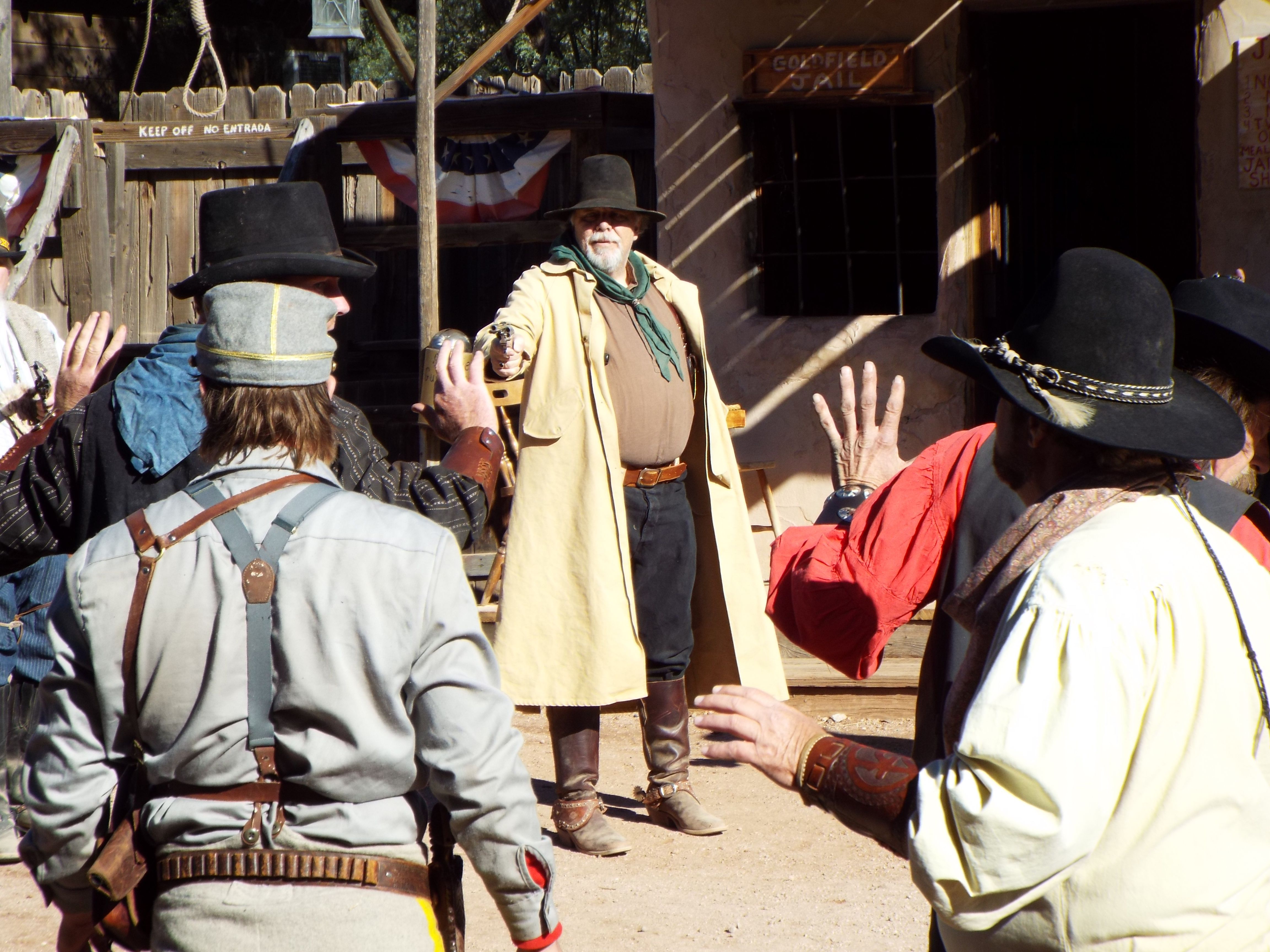 Goldfield Ghost Town in Arizona Shoot-out reenactment.